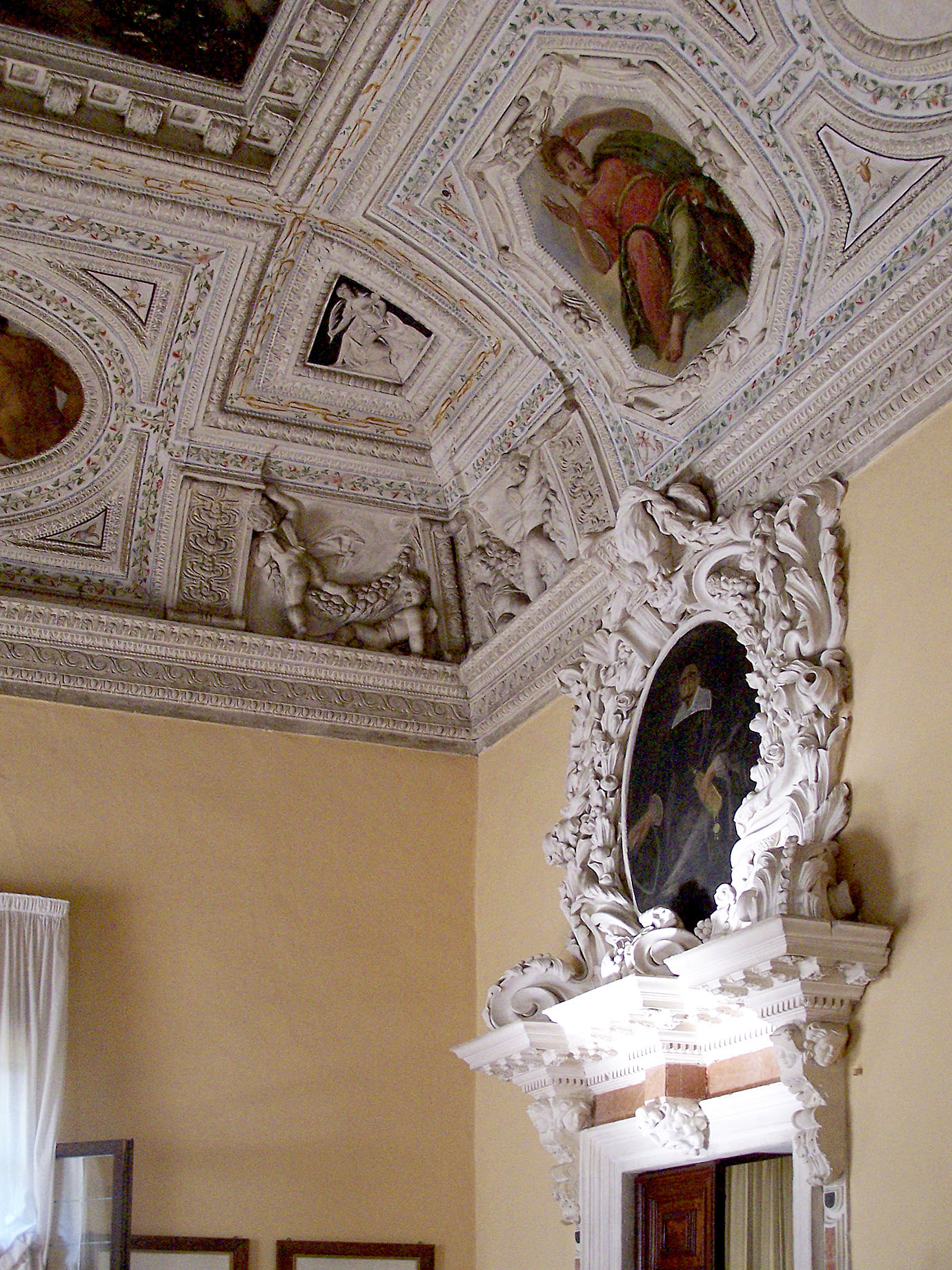 Decorative moldings and fresco painting on the ceiling of Villa Capra "La Rotonda" in Vicenza, Italy, southeast, West wall